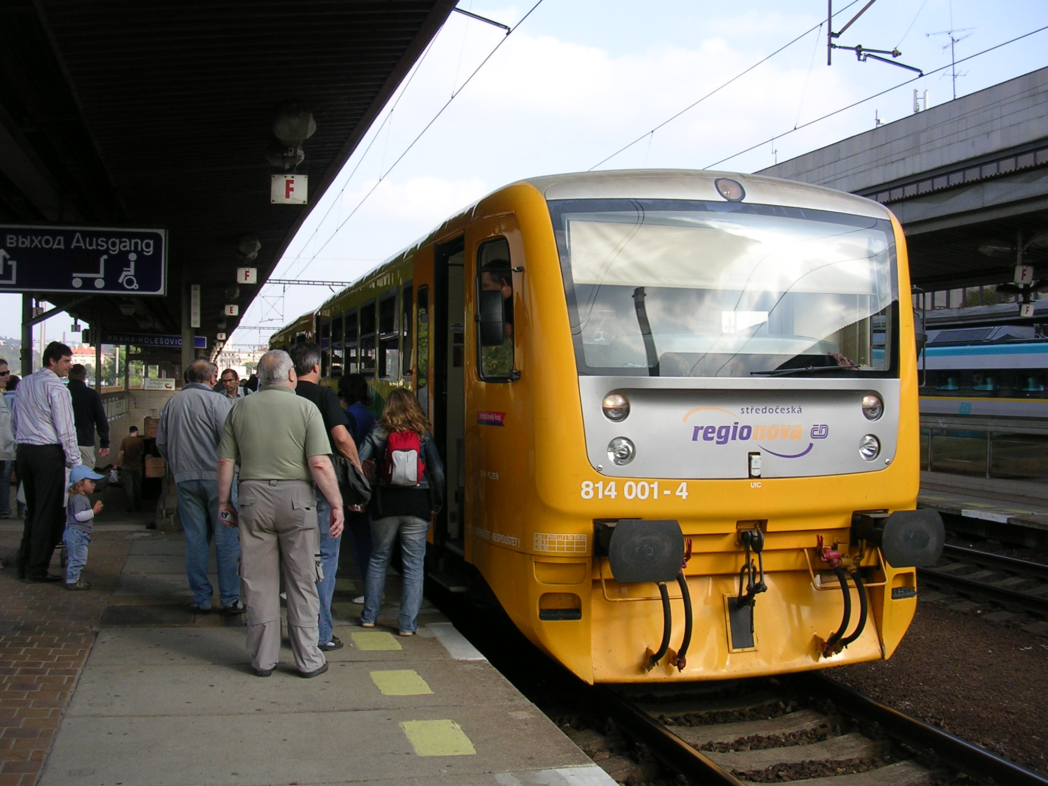 Holešovice, Prague, the Czech Republic.